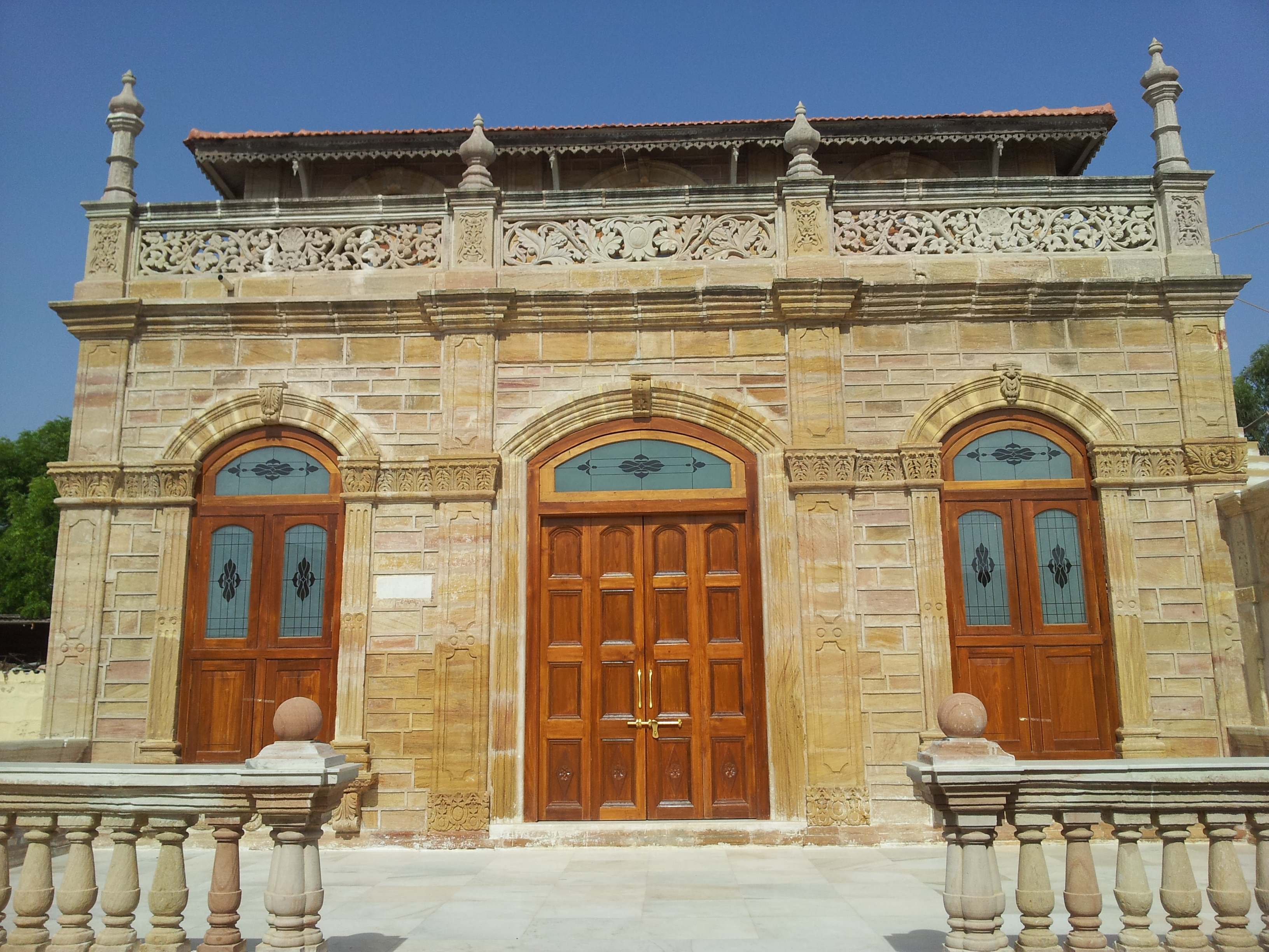 about 200 yrs old Masjid in Halvad showing Kahiavad infuence